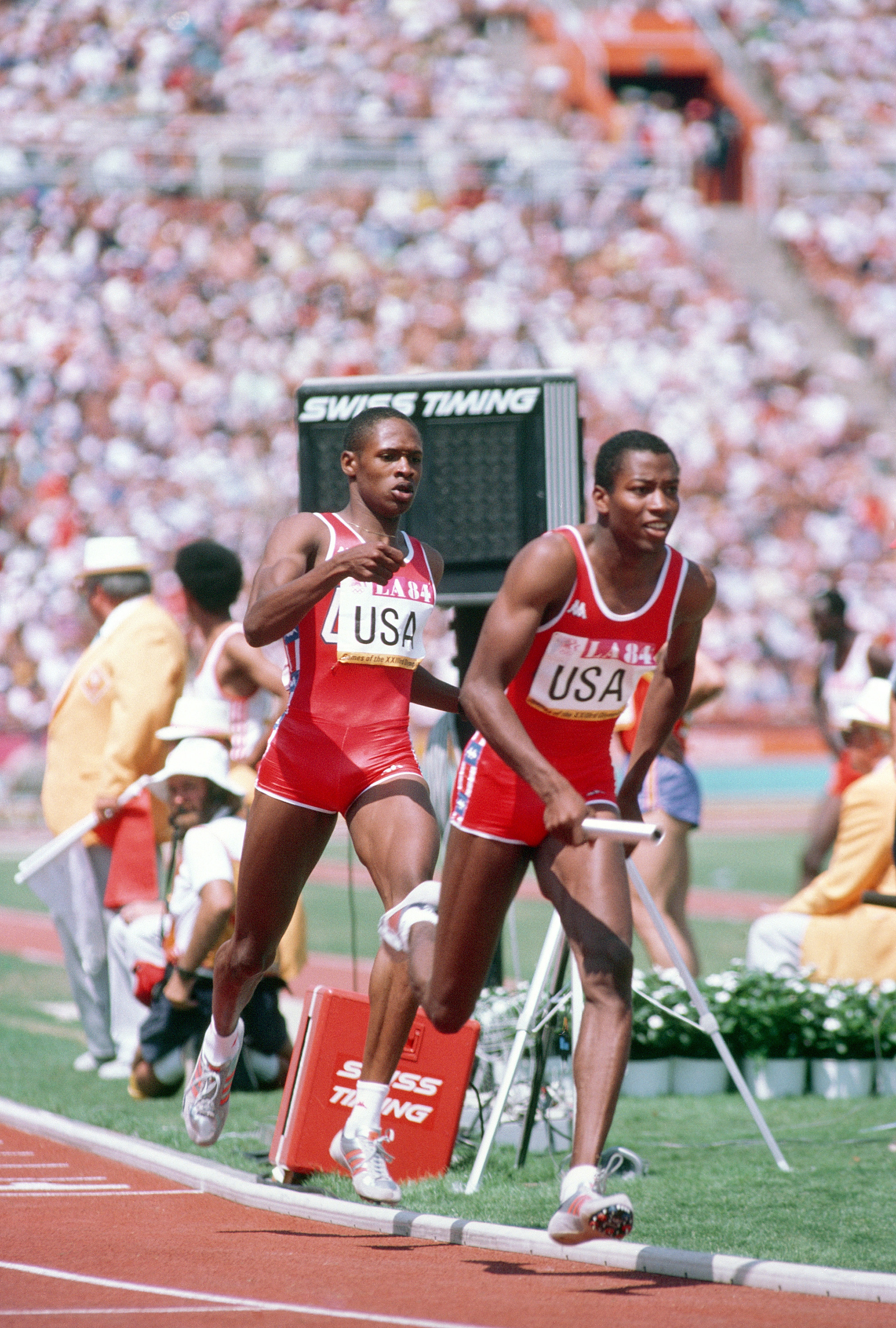 Second Lieutenant Alonzo Babers (with baton), US Air Force, competes in a leg of the 4x400 meter relay at the 1984 Summer Olympics. Barbers won a gold medal in the event. Source description and credit info from the Department of Defense: Suggested credit: DOD. DoD photo by: KEN HACKMAN Date Shot: 14 Aug 1984 Public Domain. Source: DOD. All images on this site from the Department of Defense are believed to be in the public domain. DOD specifically states: "All of these files are in the public domain unless otherwise indicated. However, we request you credit the photographer/videographer as indicated or simply "Department of Defense." See image use policy. For more information or to search DOD click here. Available information on this specific image appears below.